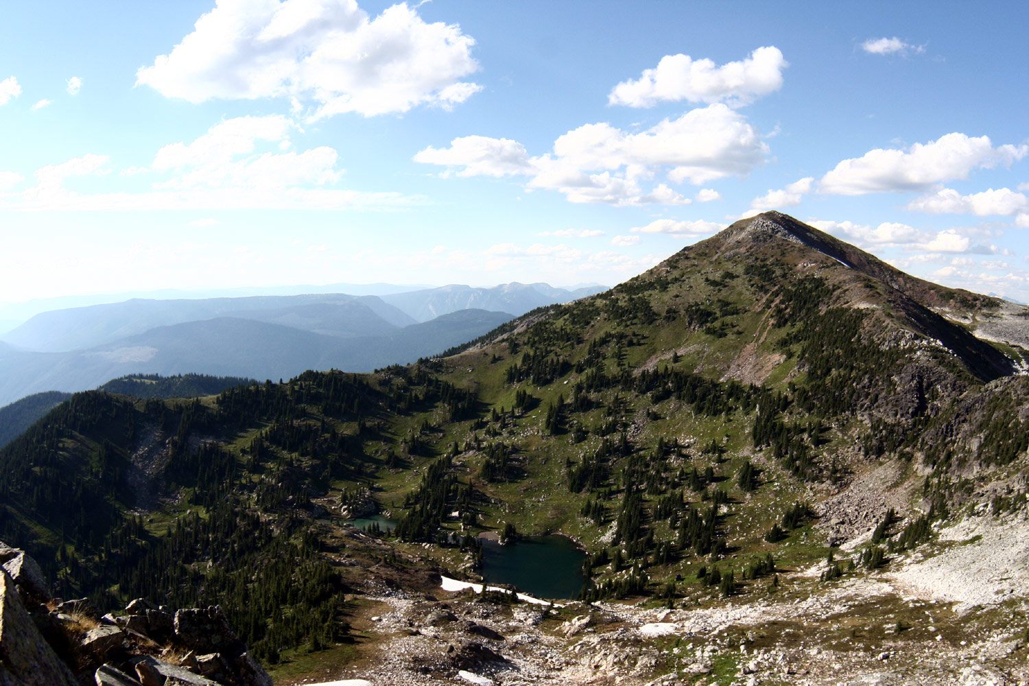 Monashee Mountains near Cherryville, British Columbia.